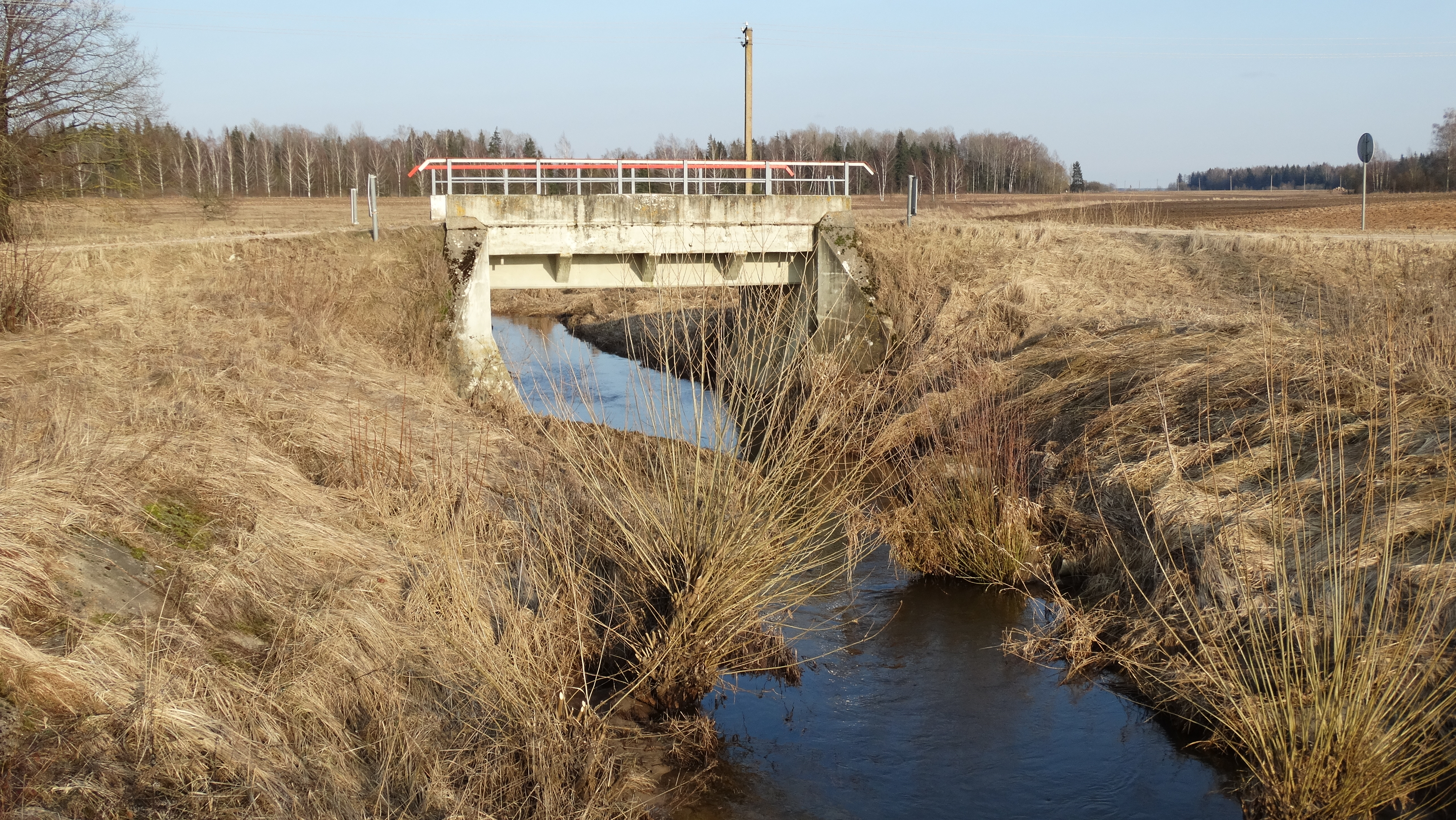 Alsa River, Jurbarkas district, Lithuania